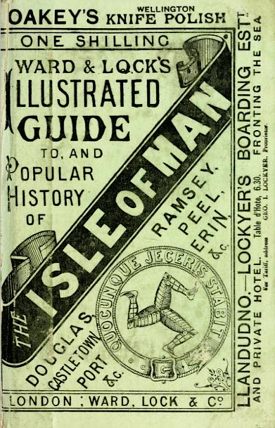 Cover of: Ward & Lock's Descriptive and Pictorial Guide to the Isle of Man